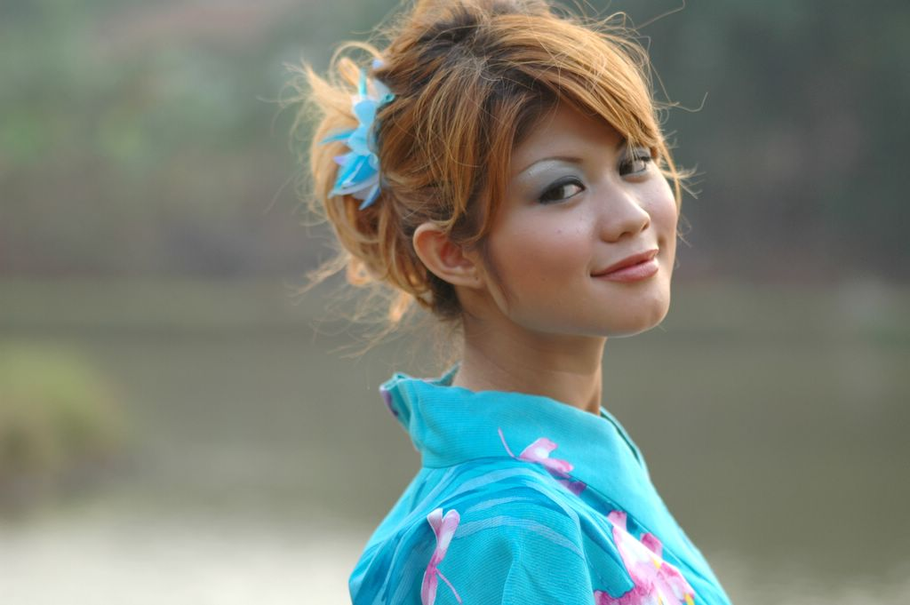 Girl in blue kimono. Taken at Athena Stables, Sawangan, Depok.